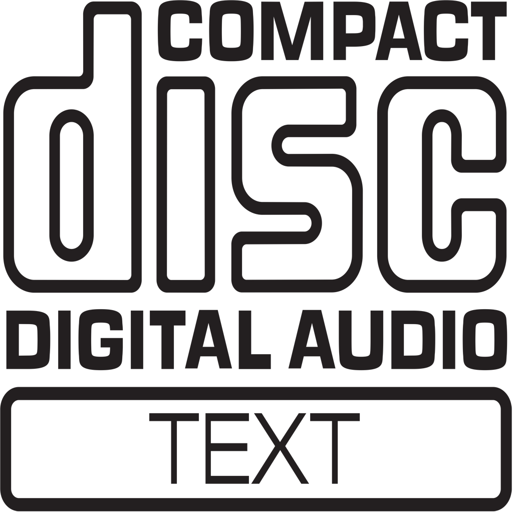 CD-Text logo